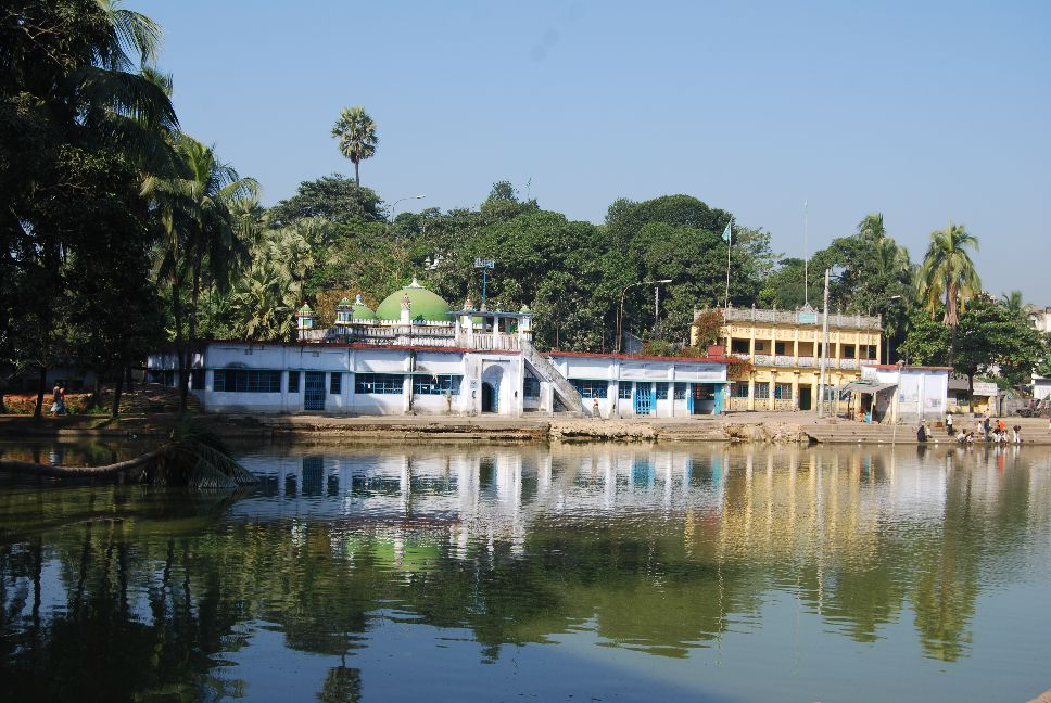 Baizid Bostami's Mazar and surroundings, Chittagong.